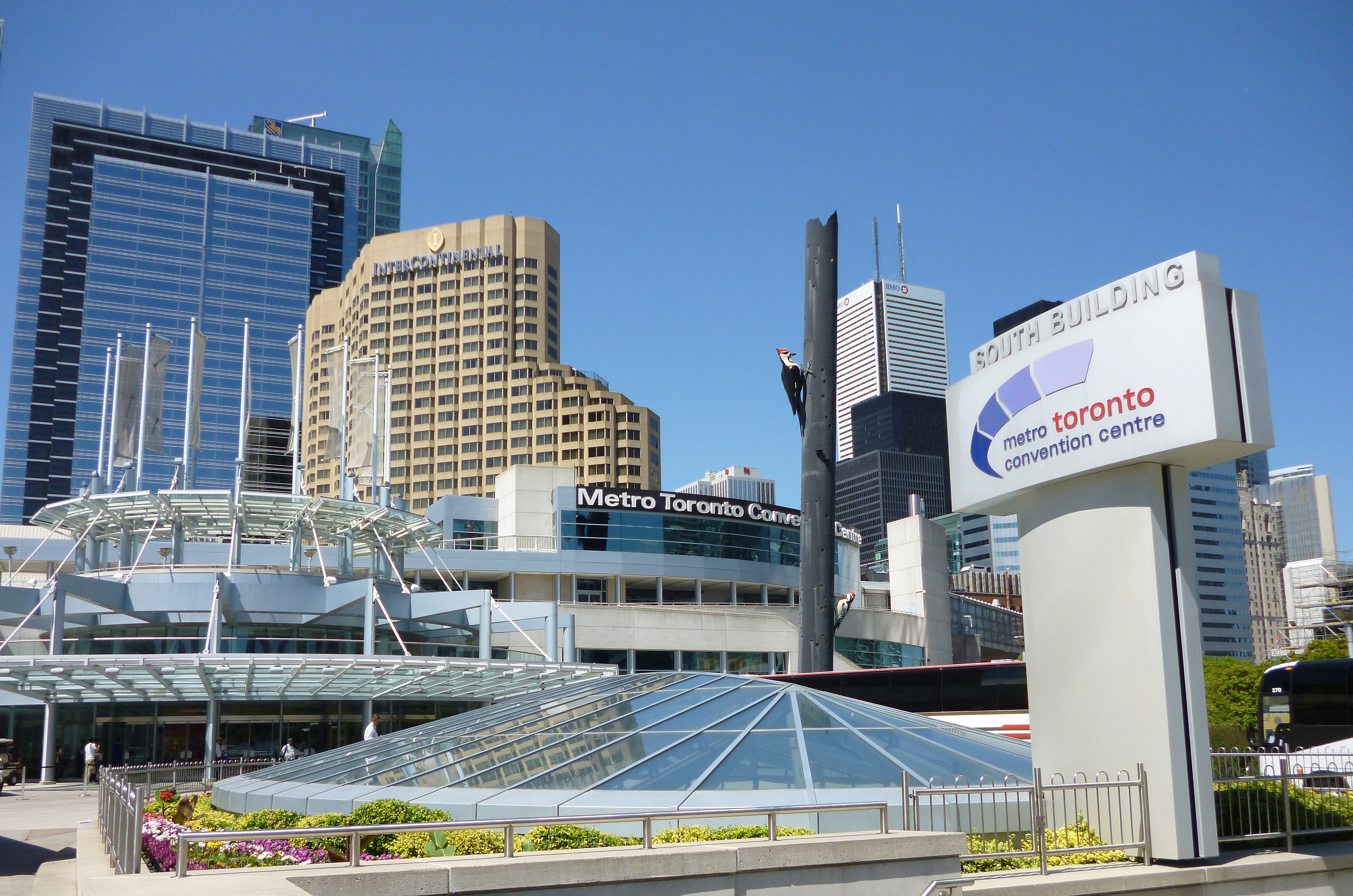 Sign at the entrance to the South Building of the Metro Toronto Convention Centre in Toronto, Ontario. Photographed by user Coolcaesar on July 5, 2014.